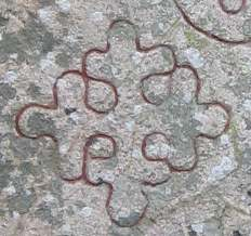 Byzantine style cross on runestone U 161, Uppland, Sweden